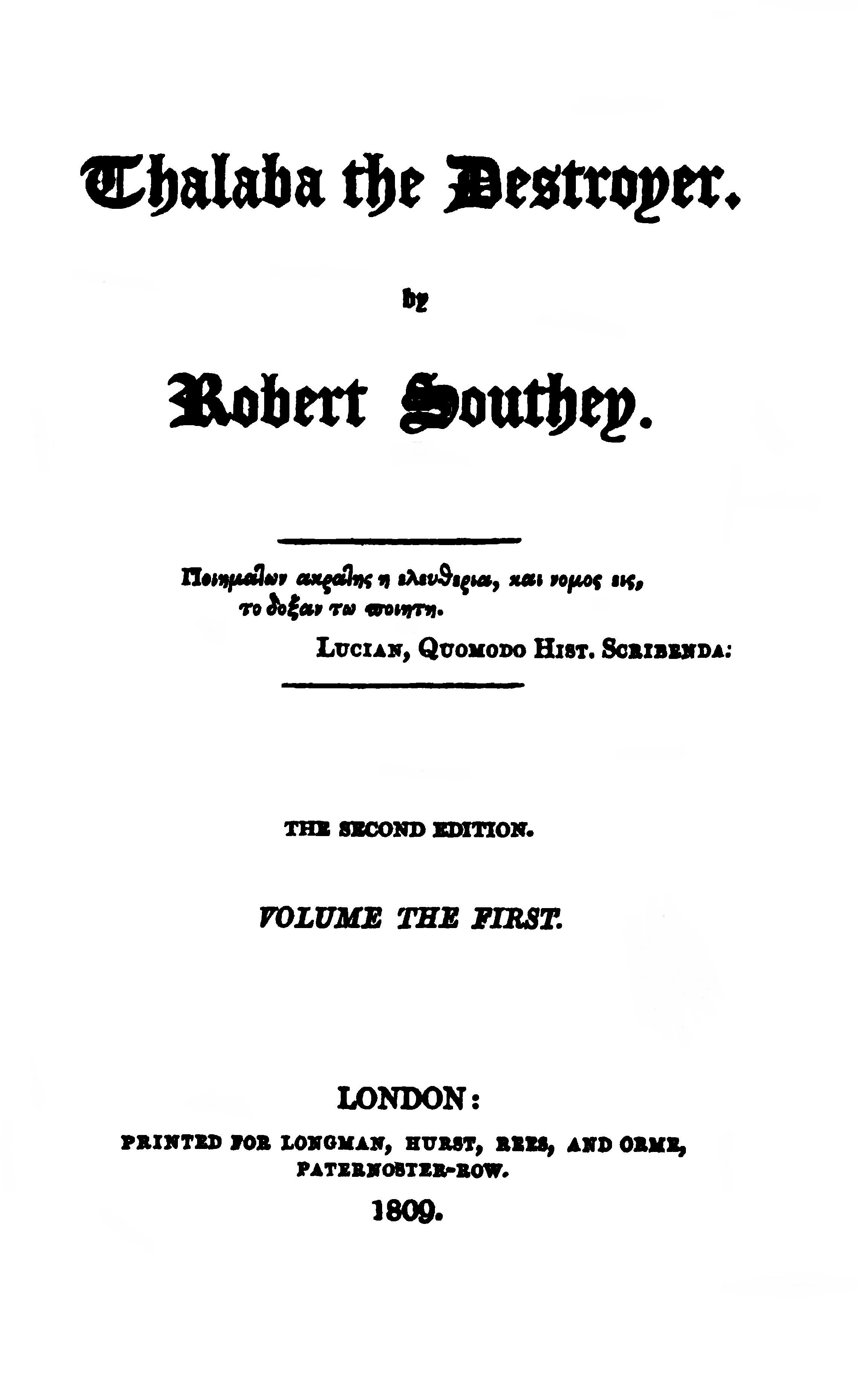 Thalaba the Destroyer 2nd ed title pg